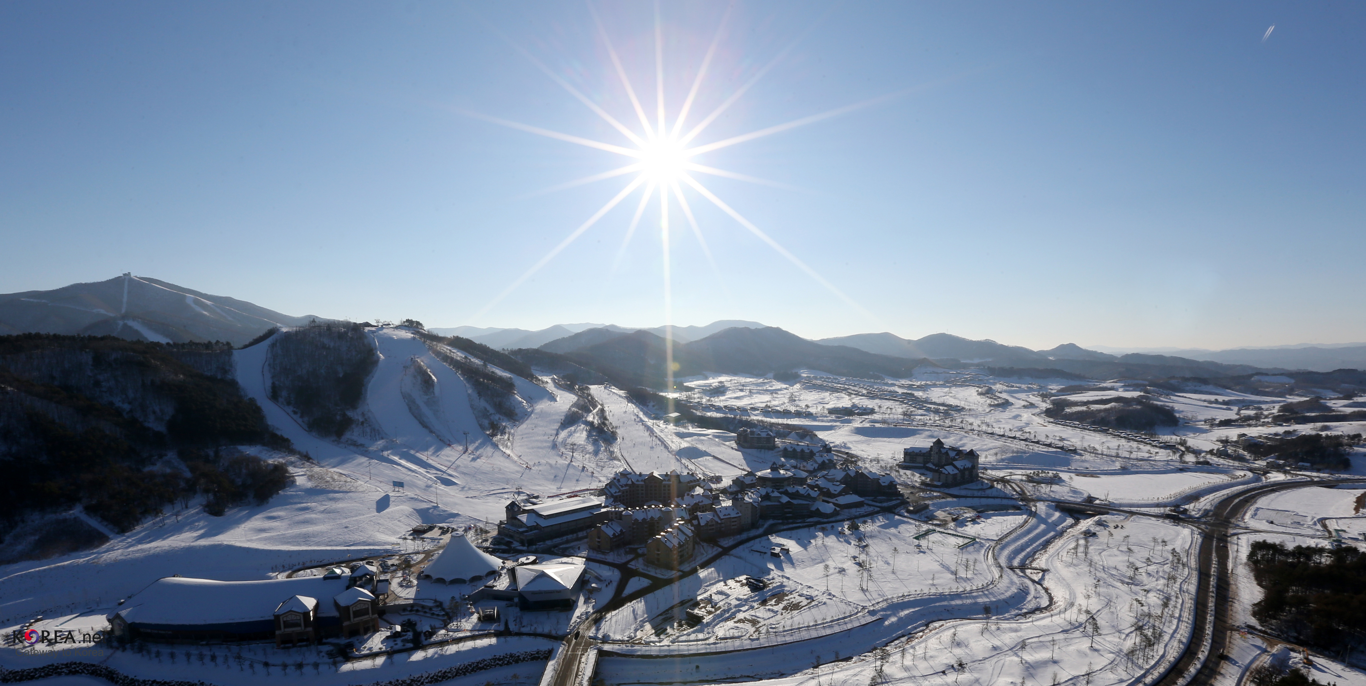 2013 PyeongChang The Special Olympics World Winter Games Media Day PyeongChang, Gangwon-Do 2013.01.10. Ministry of Culture, Sports and Tourism Korean Culture and Information Service Jeon Han 2013 평창 동계 스페셜올림픽 세계대회 미디어데이 평창, 강원도 문화체육관광부 해외문화홍보원 코리아넷 전한